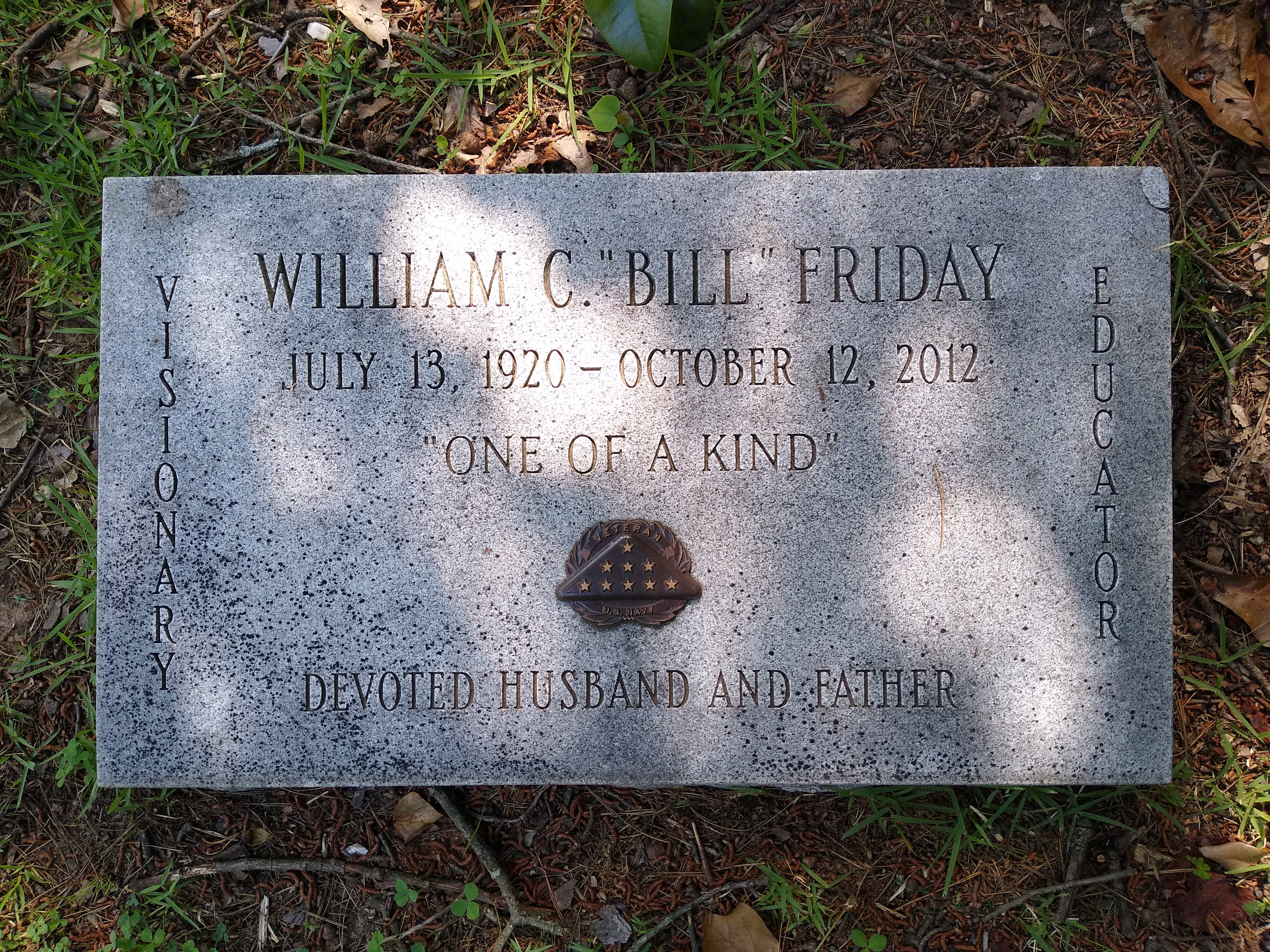 Grave of William C. "Bill" Friday at the Old Chapel Hill Cemetery in Chapel Hill, North Carolina.